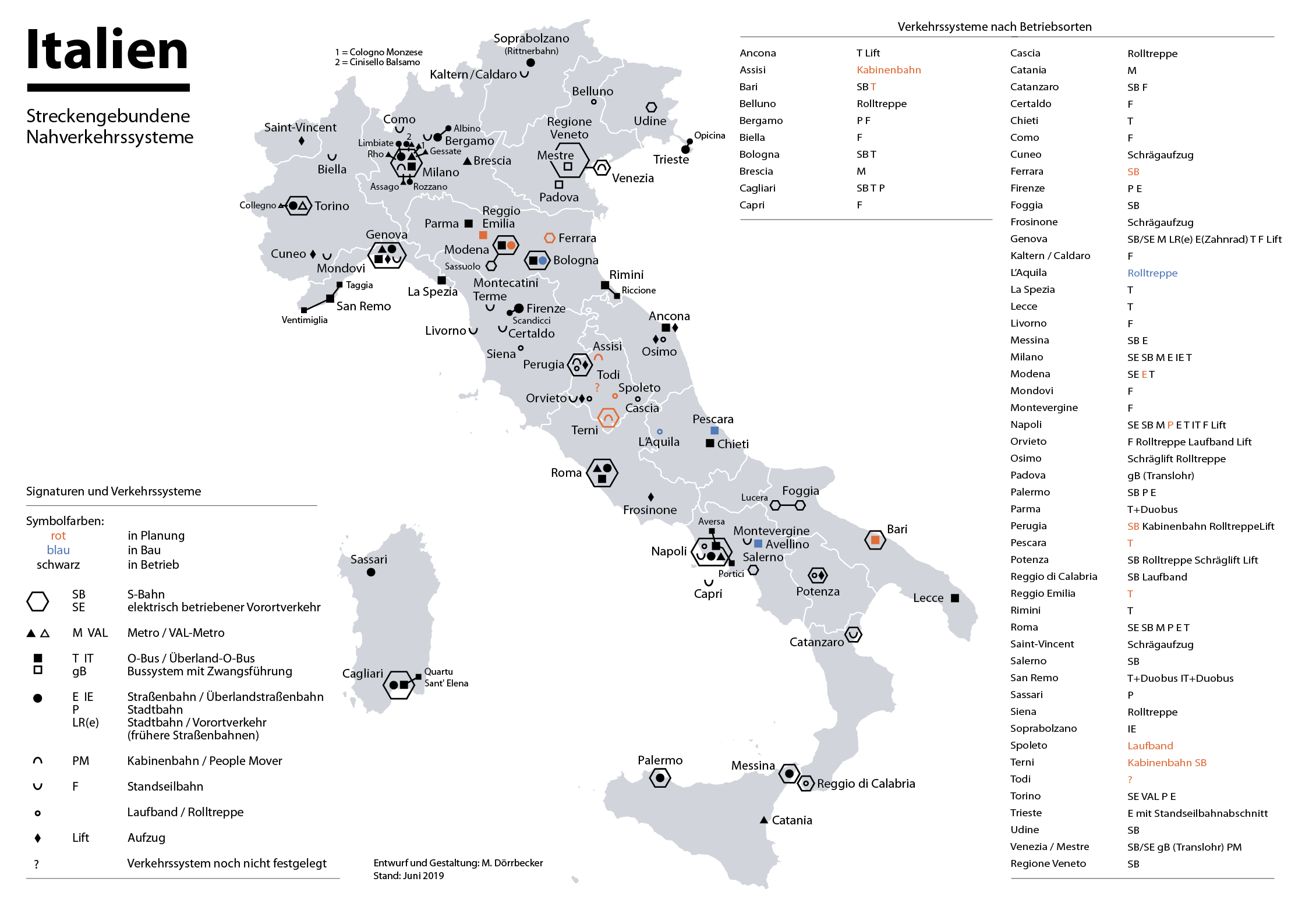 Map of fixed-route public transport systems (suburban railways, Rapid Transit and Light Rail Transit systems, tram, trolleybus) in Italy